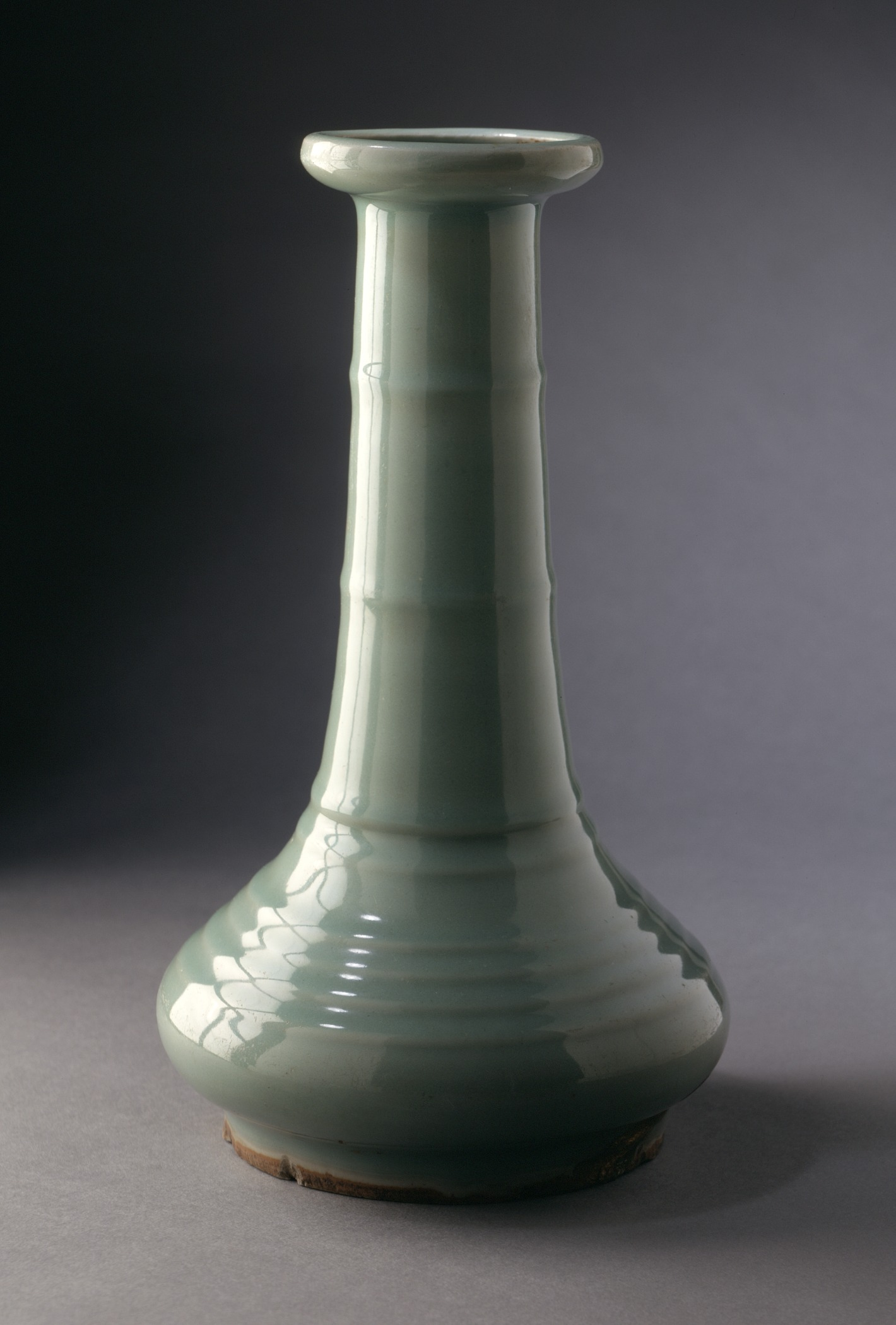 China, Zhejiang Province, Longquan County, Southern Song dynasty, 1127-1279 Furnishings; Accessories Longquan ware, wheel-thrown stoneware with molded decoration and green glaze 11 1/2 x 6 1/2 in. (29.21 x 16.51 cm) Gift of Nasli M. Heeramaneck (M.73.48.103) Chinese Art